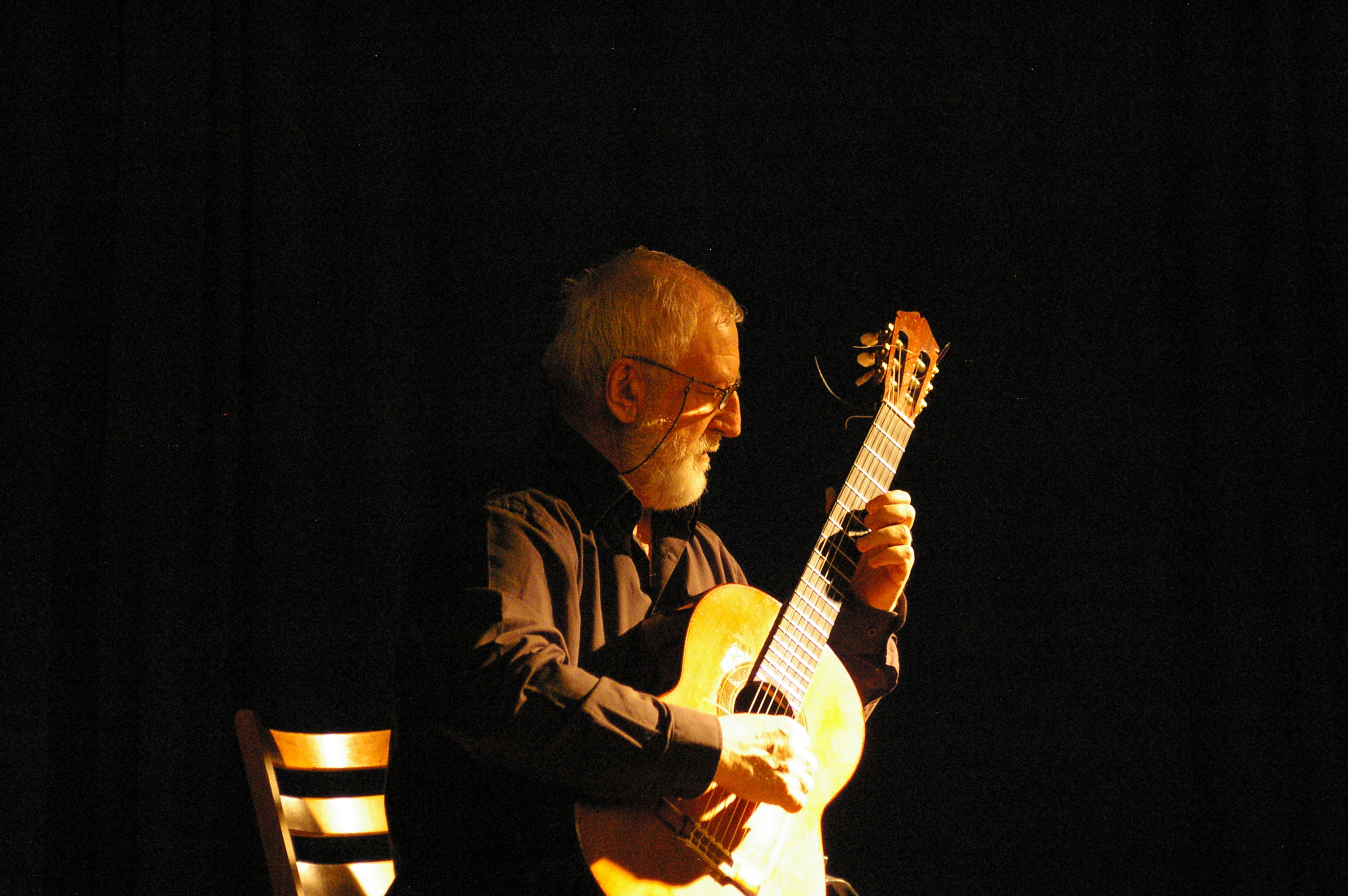 Štěpán Rak